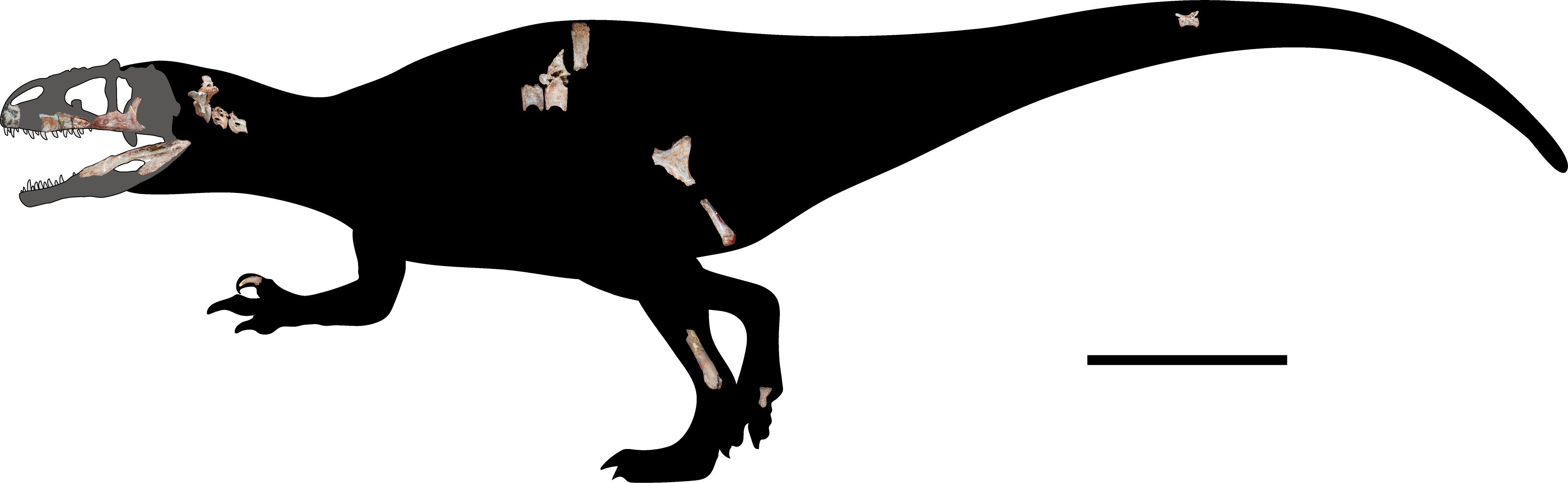 Skeletal reconstruction of Siamraptor suwati. Cranial elements were scaled to fit in with the holotype (surangular). Scale bar equals 1 m.